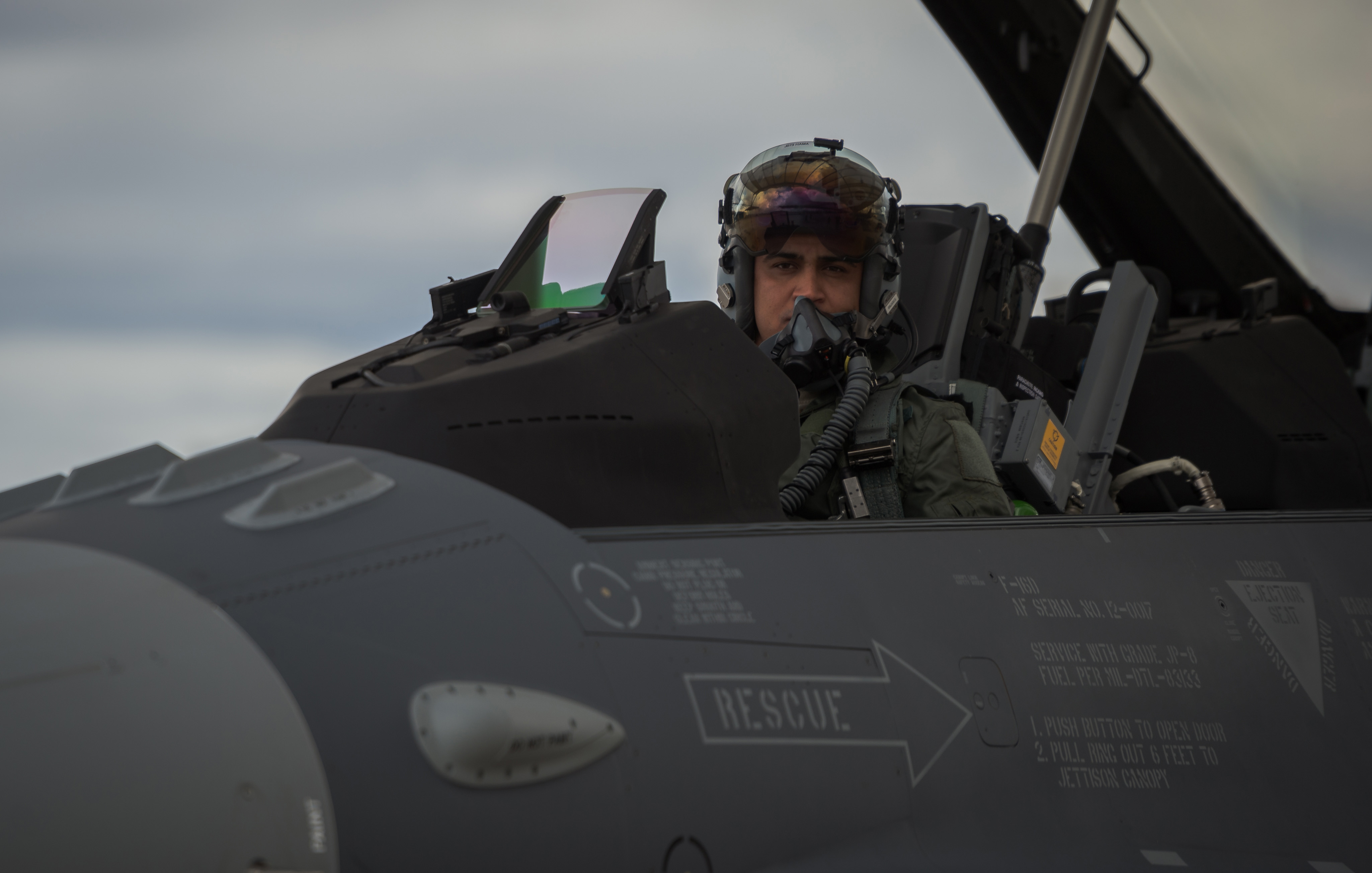 Iraqi air force captain Hama conducts preflight inspections while inside a new to service Iraqi F-16 Fighting Falcon Dec. 17, 2014, located at the nearby Tucson International Airport, Ariz. Hama was part of the first class of Iraqi students training with the 162nd Wing to further enhance interoperability between the two partner nations. (U.S. Air Force photo/Senior Airman Jordan Castelan)